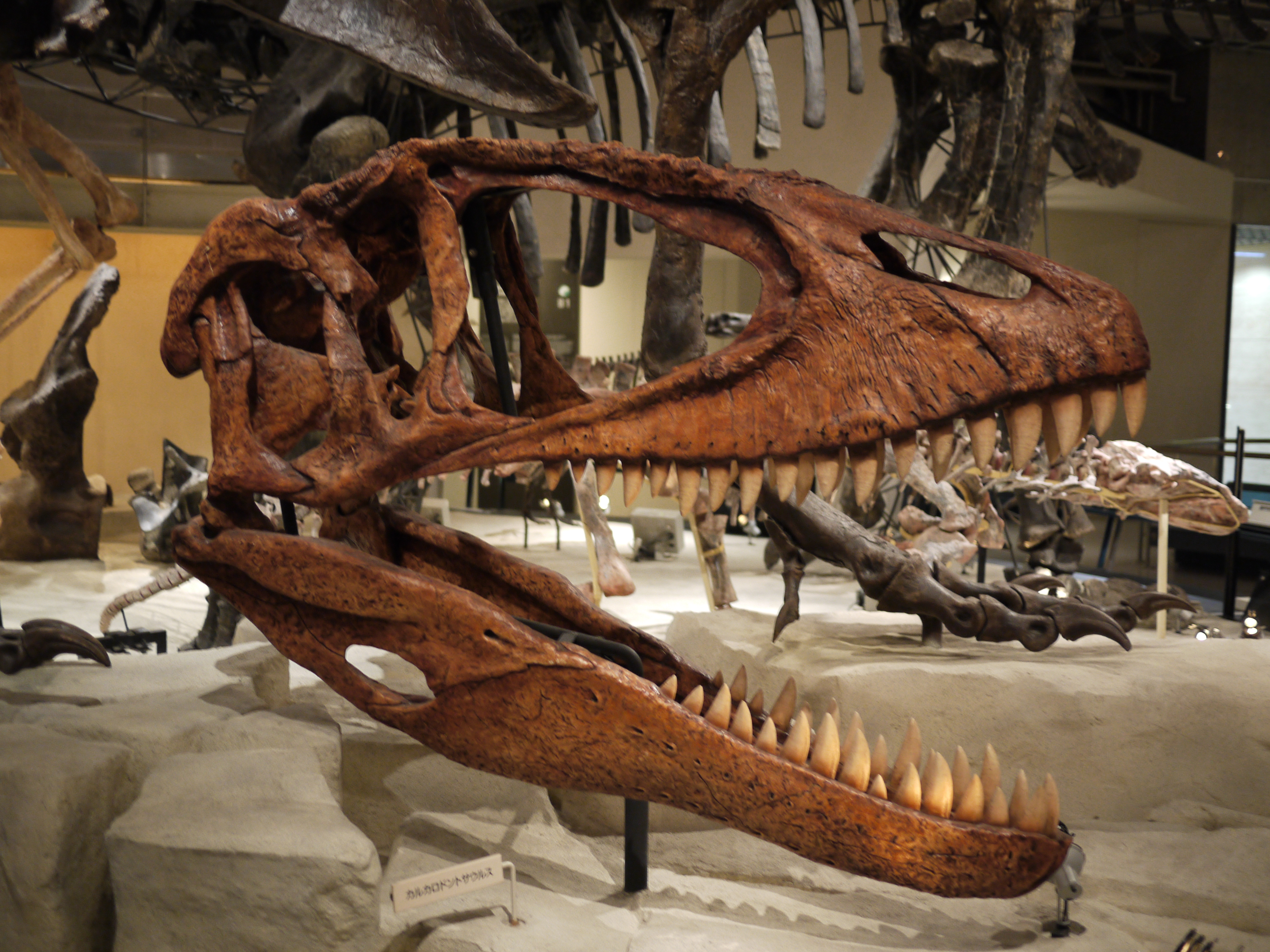 at National Museum of Nature and Science, Tokyo